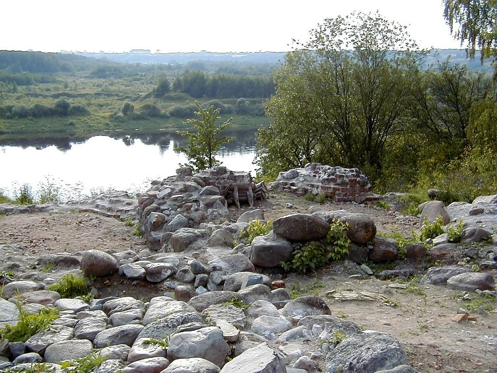 Dinaburga Castle ruins overlooking Daugava River